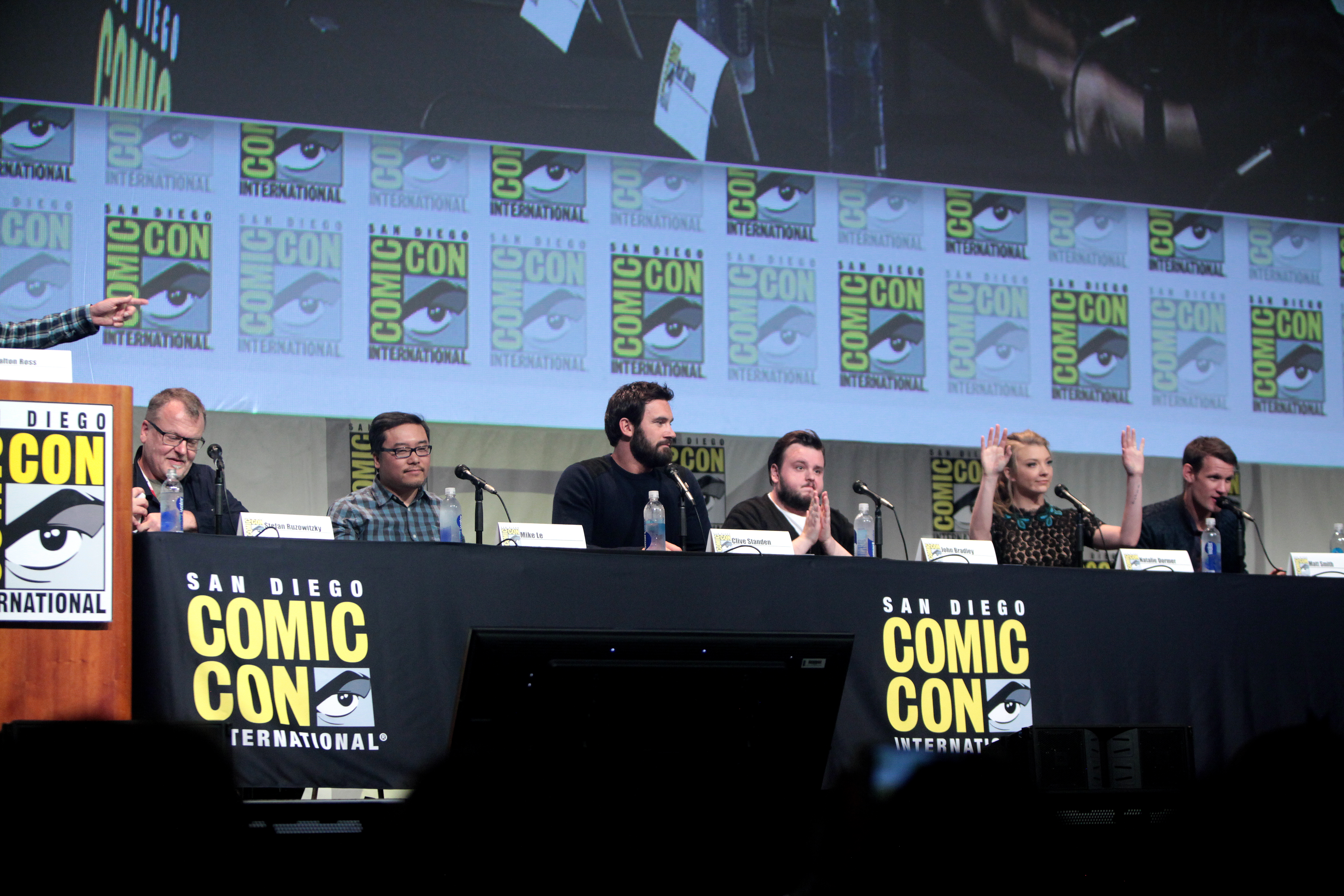 Stefan Ruzowitzky, Mike Le, Clive Standen, John Bradley, Natalie Dormer and Matt Smith speaking at the 2015 San Diego Comic Con International, for "Patient Zero", at the San Diego Convention Center in San Diego, California.